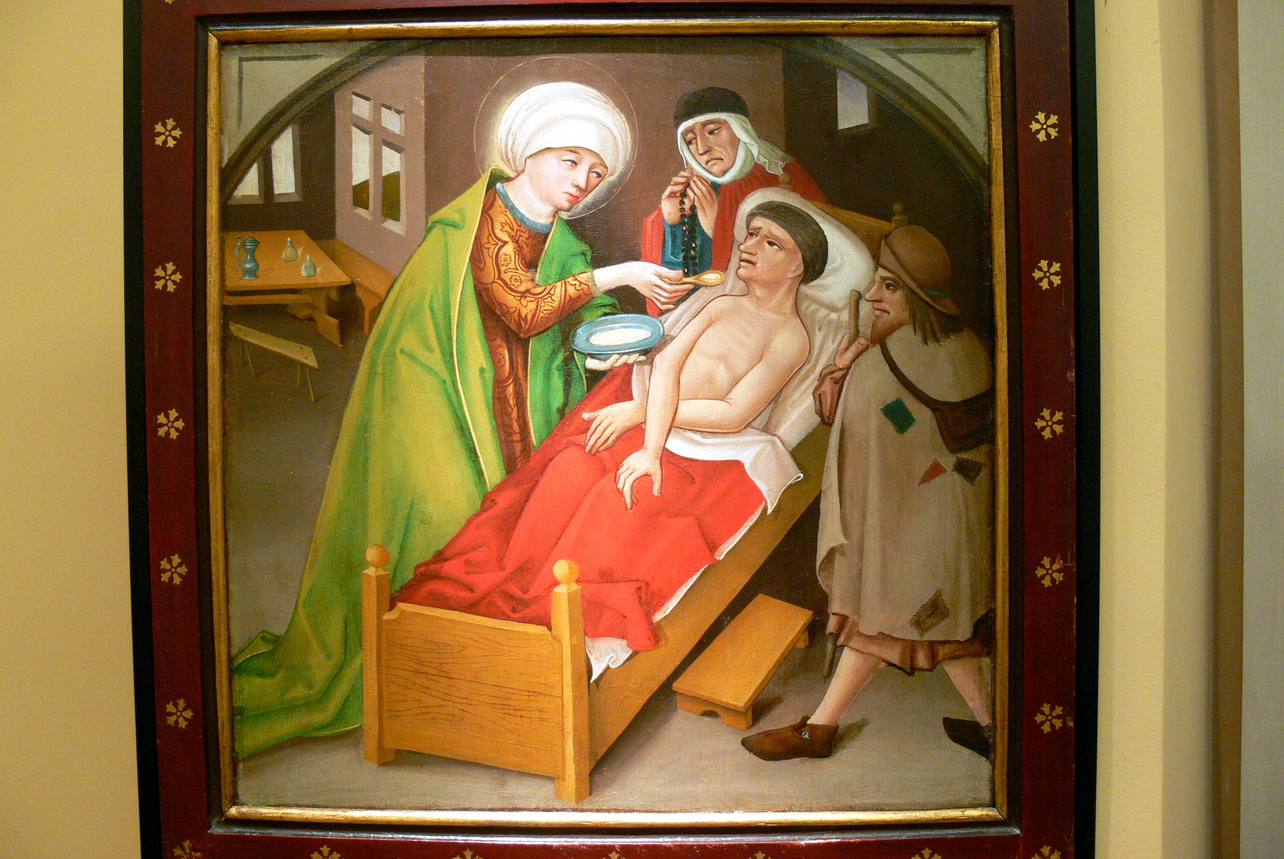 Vienna, Treasury of the German Order. Painting ( 1500s ) showing Elisabeth of Hungary caring for ill people, from Styria ( Inv.-Nr. B-205 )